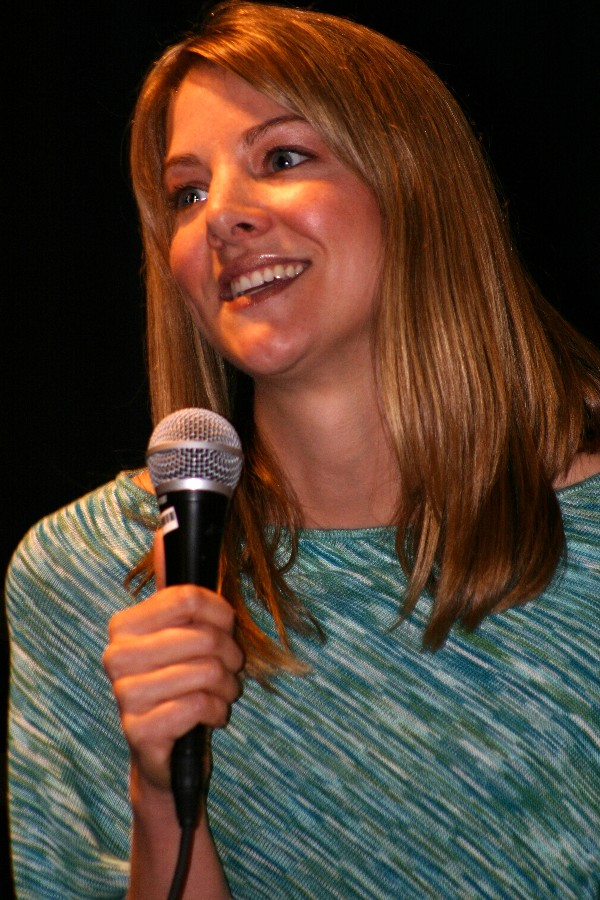 Elizabeth Anne Allen at the 2004 Flashback convention in Chicago.